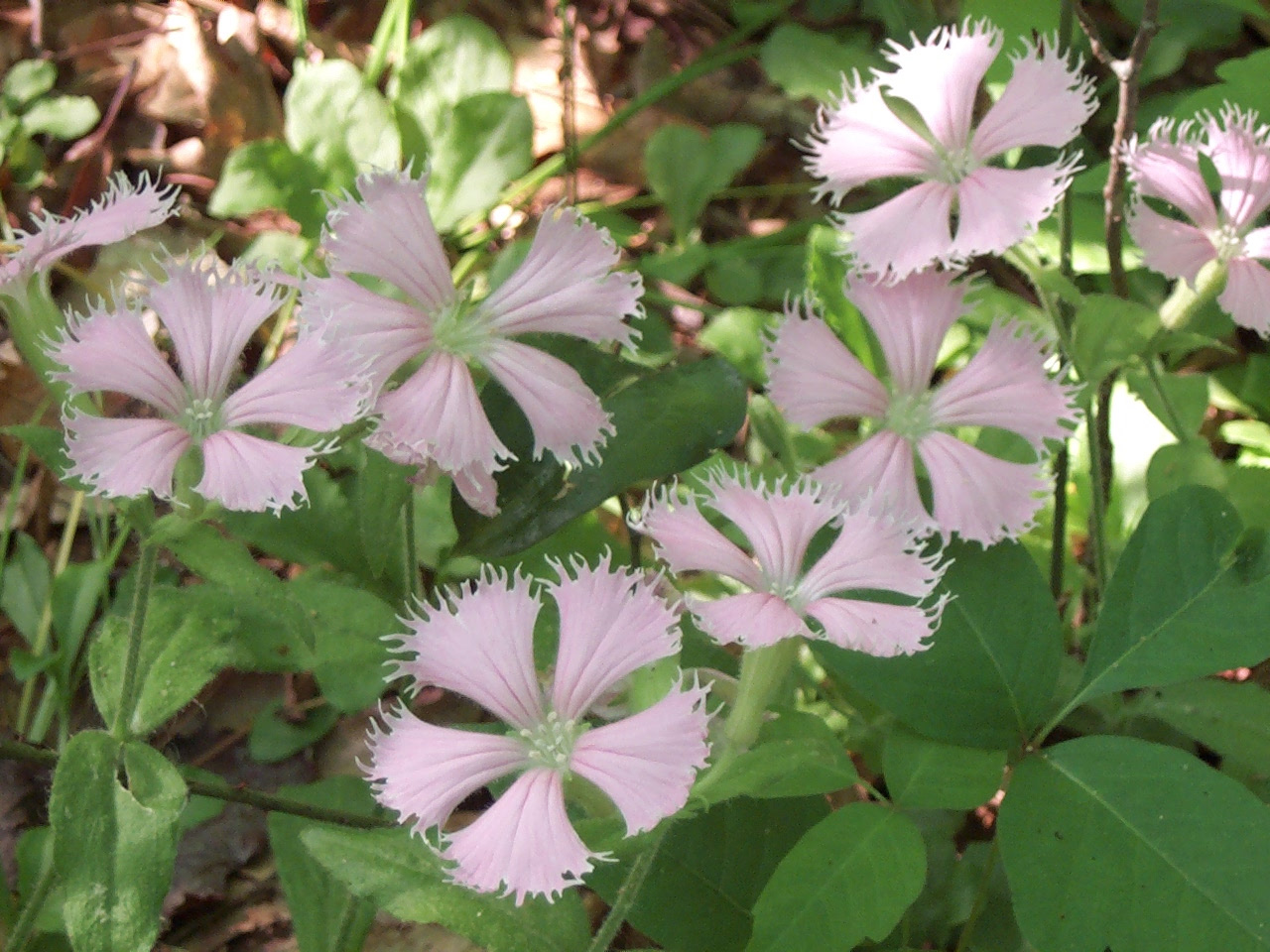 Fringed campion in full flower (Silene polypetala), Georgia, USA